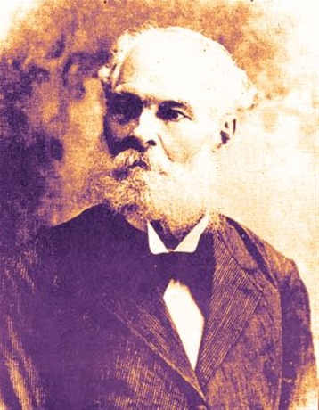 José Rufino Reyes, compositor del himno dominicano.